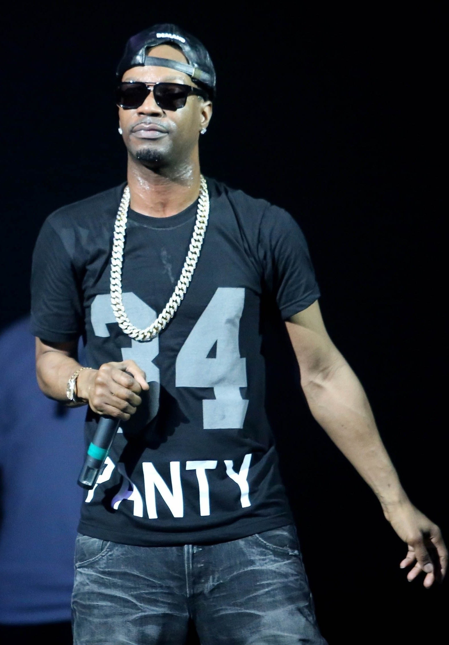 Juicy J in 2014